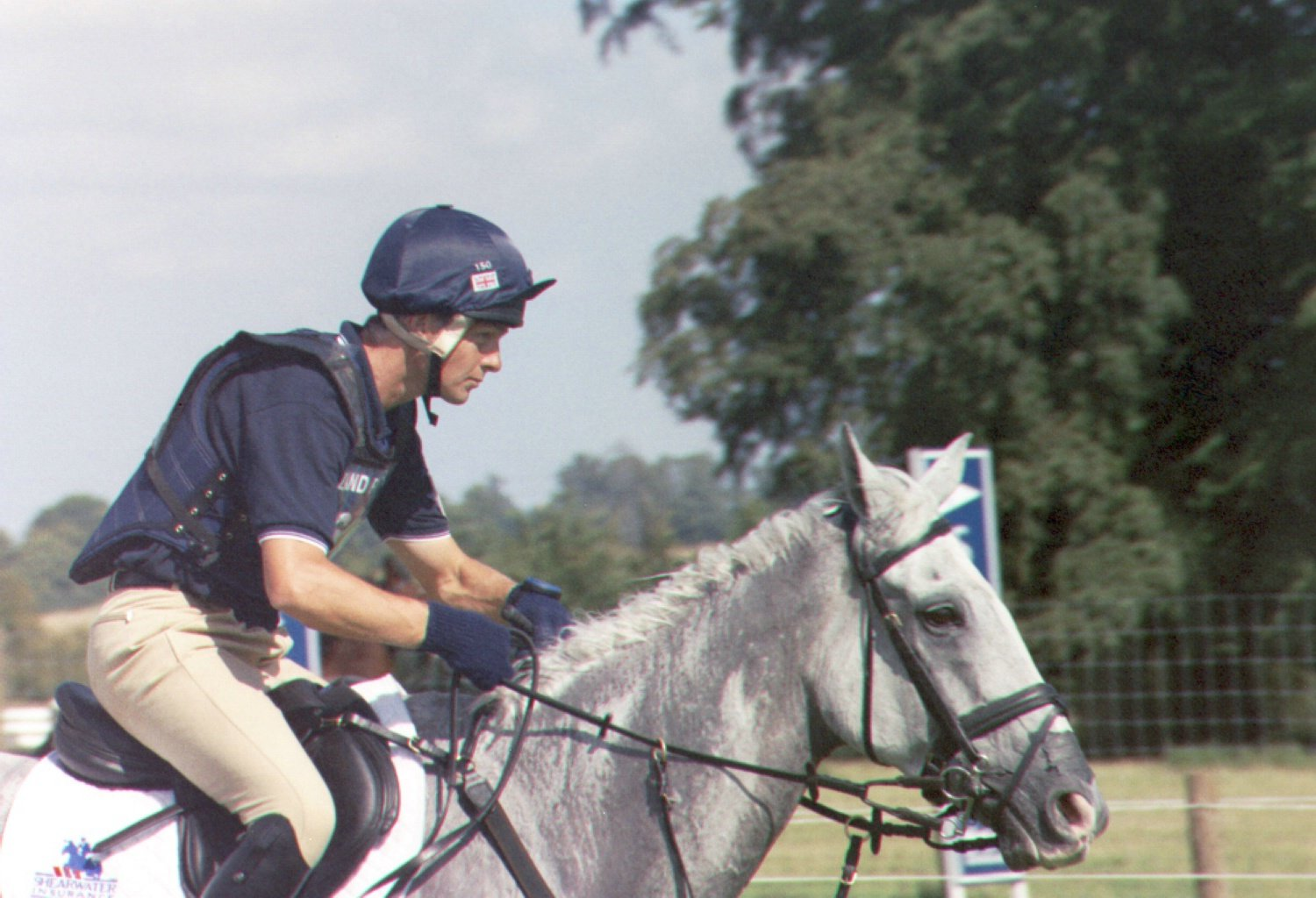 Olympic Champion Leslie Law rides Shear H2O at the 2004 Burghley Horse Trials.